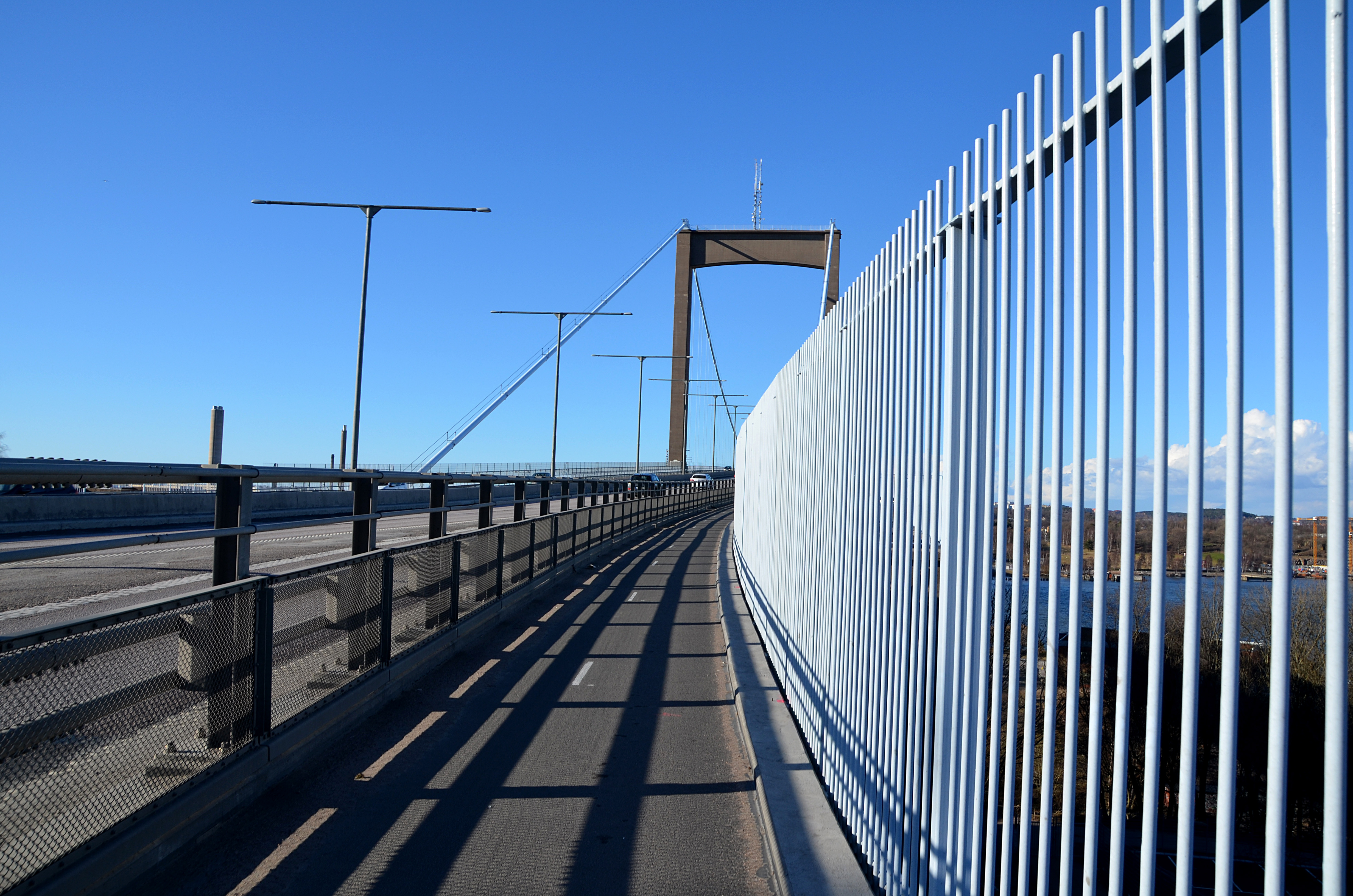 Älvsborgsbron. The fence on the right is to prevent suicide jumpers.